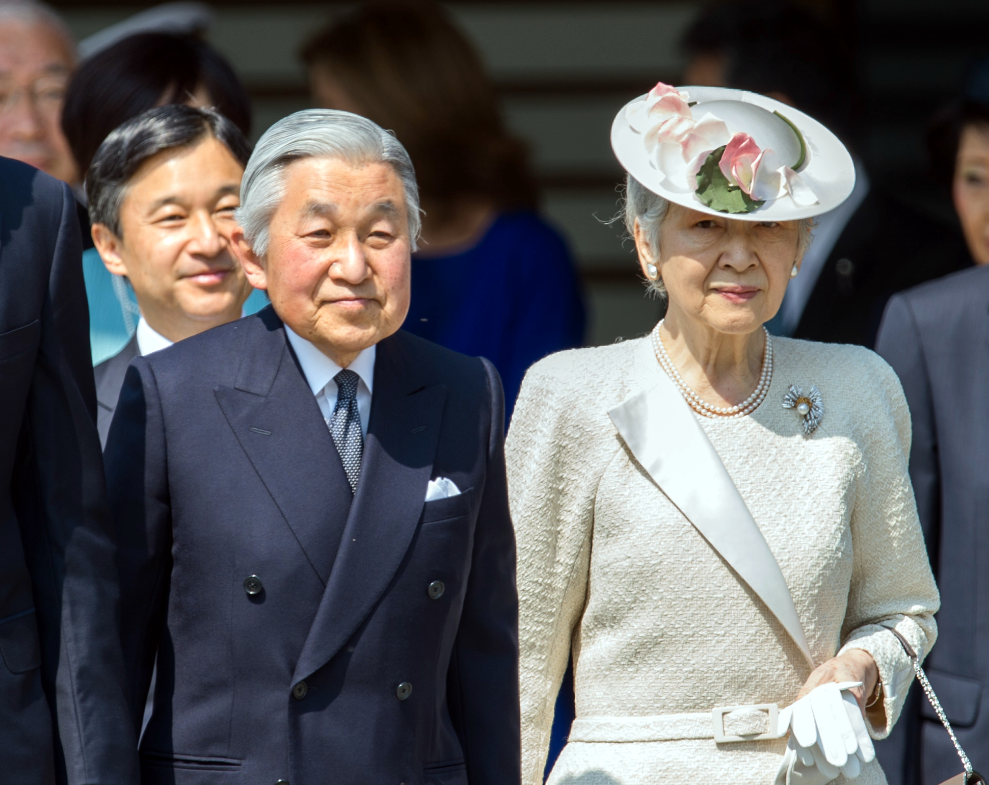 Barack Obama, President, met Emperor Akihito and Empress Michiko with Crown Prince Naruhito and Shinzō Abe, Prime Minister, at the Tokyo Imperial Palace in Chiyoda Ward, Tōkyō Metropolis on April 24, 2014.